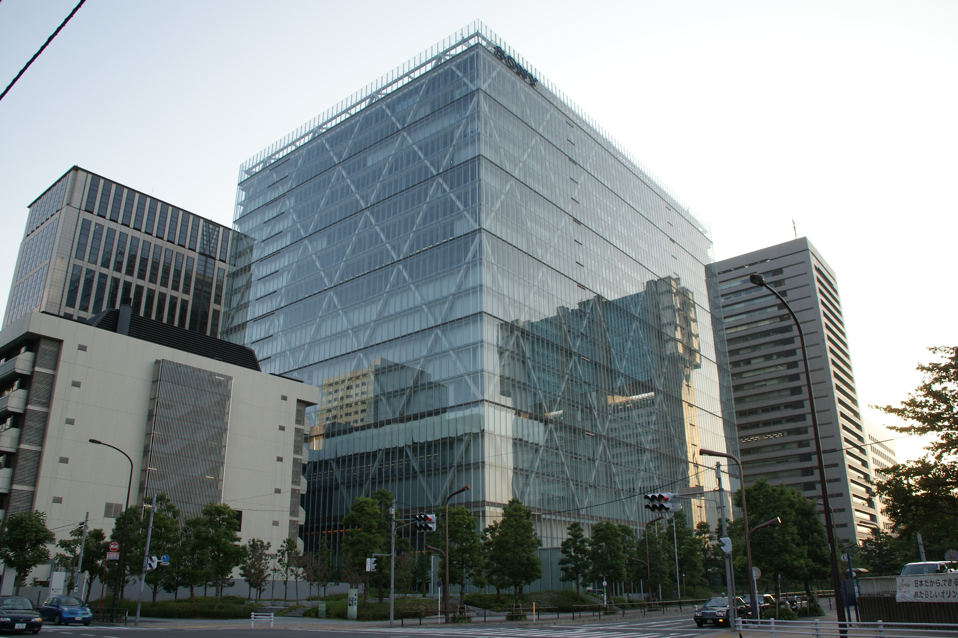 Sony headquarters right near Luis' apartment.